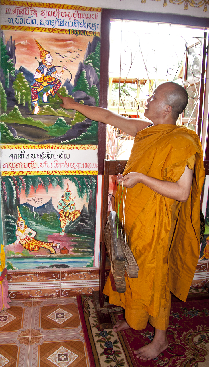 This photo was taken at Wat Muang Nyong near the village of Muang Vaen, south of Sam Neua. It shows the abbot of the temple holding several bundles of palm leaf manuscripts telling the story of Sinxay owned by the wat. He is also pointing toward a small painting of Sinxay within the temple. This wat is located about 30 kilometers south of Sam Neua in Huaphan Province, Laos